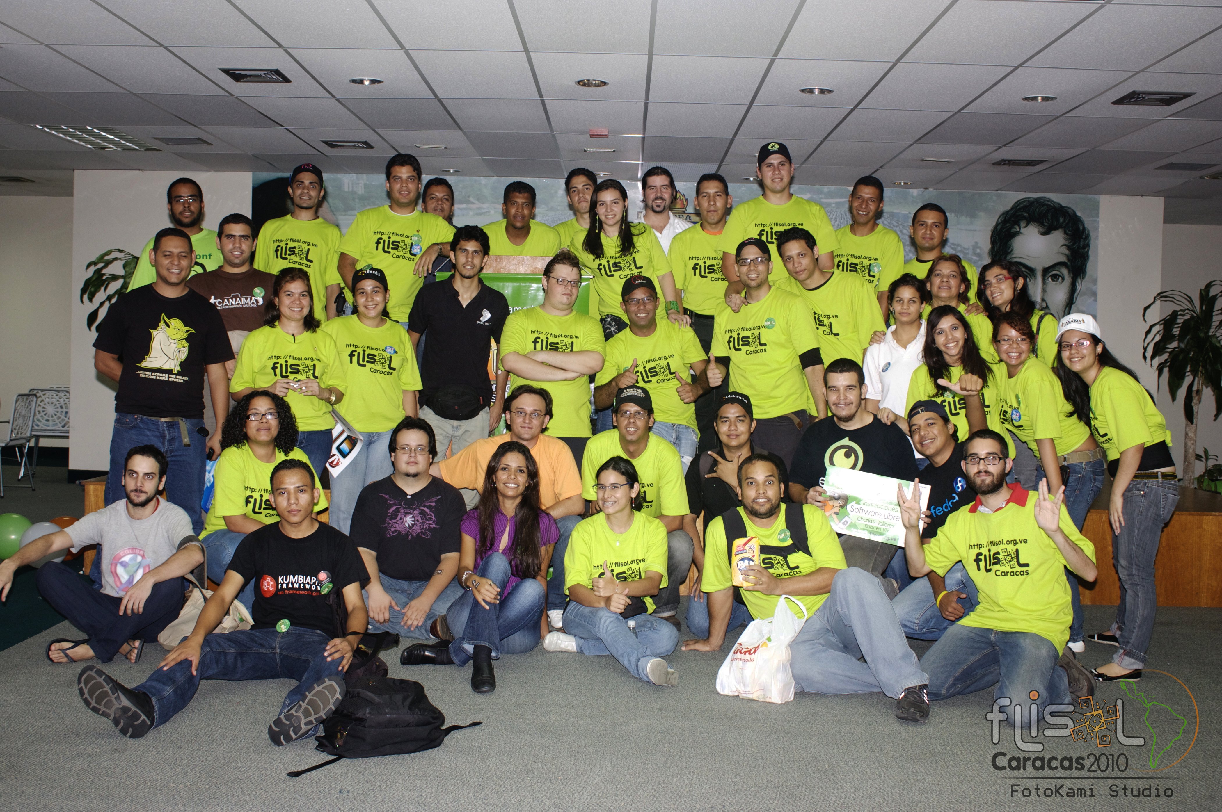 Organizers of FLISoL in Caracas